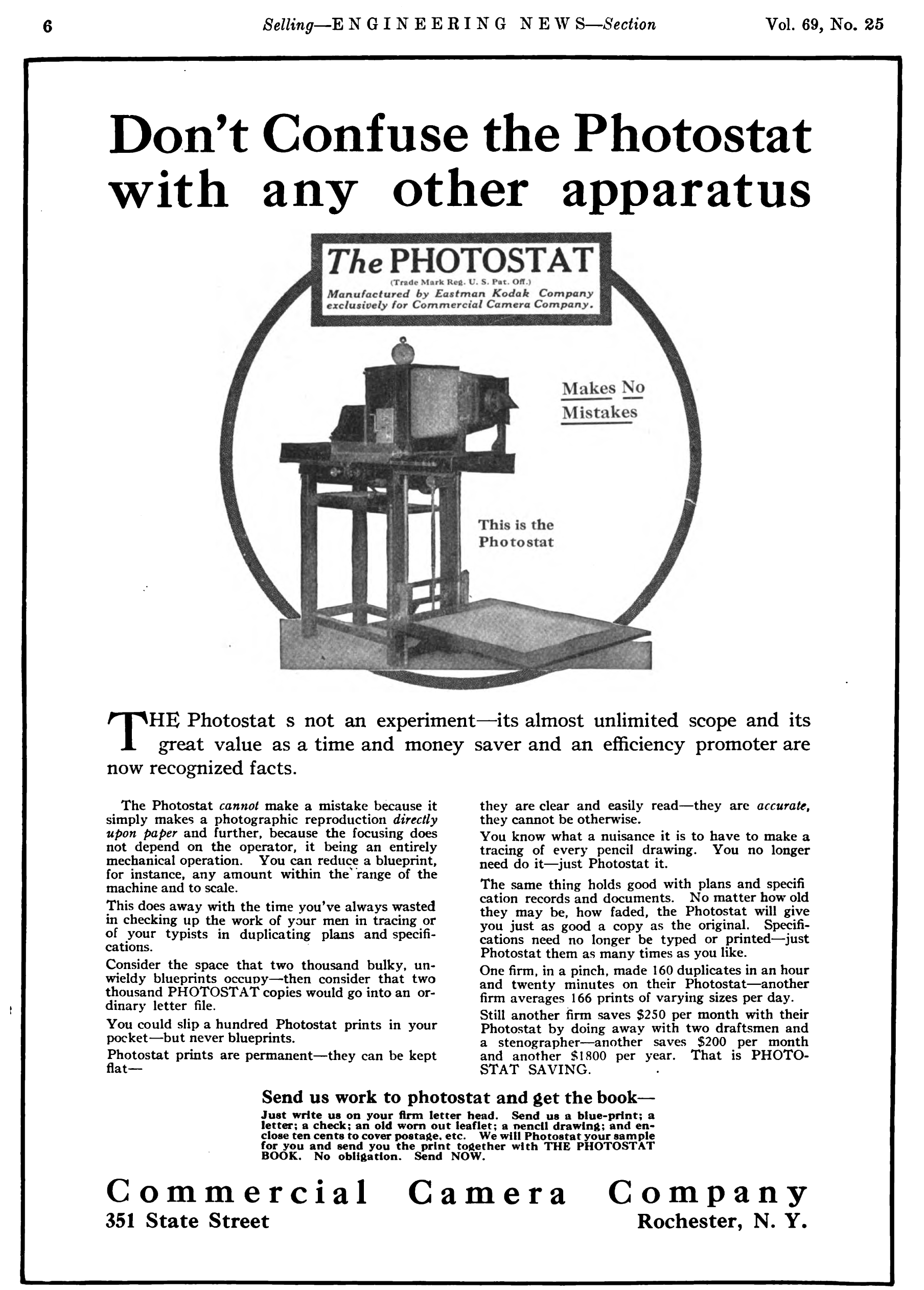 Commercial Camera Company Photostat advertisement in Engineering News, volume 69, number 25, June 19, 1913, page 6.